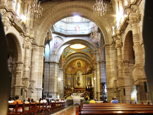 Inside Merida Cathedral. Venezuela.